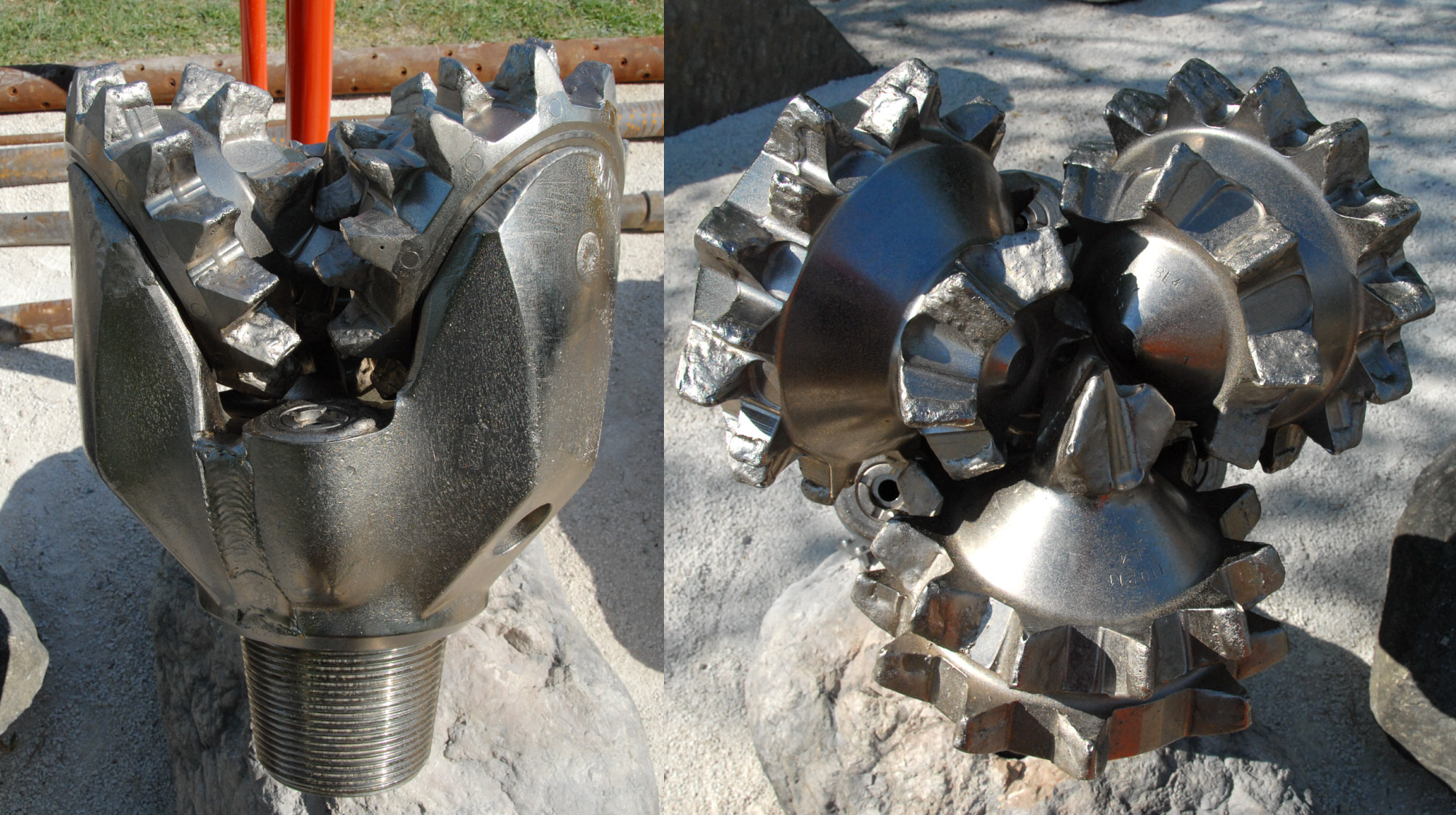 Tricone rock bit for 17.5 in oil well drilling